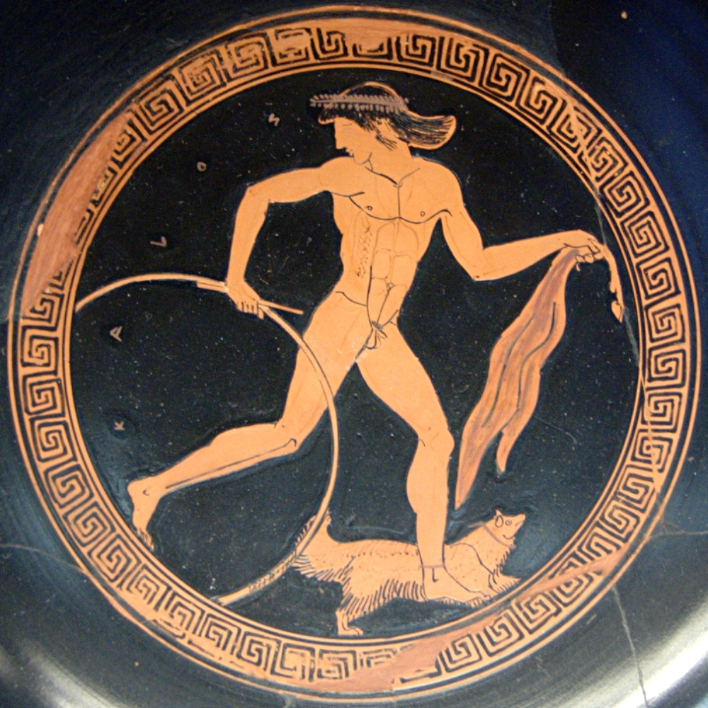 Eromenos: he holds a hoop and a stick in his left hand, and a roe-deer thigh in his right hand, maybe loving gifts. Inscription: ΚΑΛΟΣ. Interior of an Attic red-figure kylix, ca. 470 BC. From Vulci.